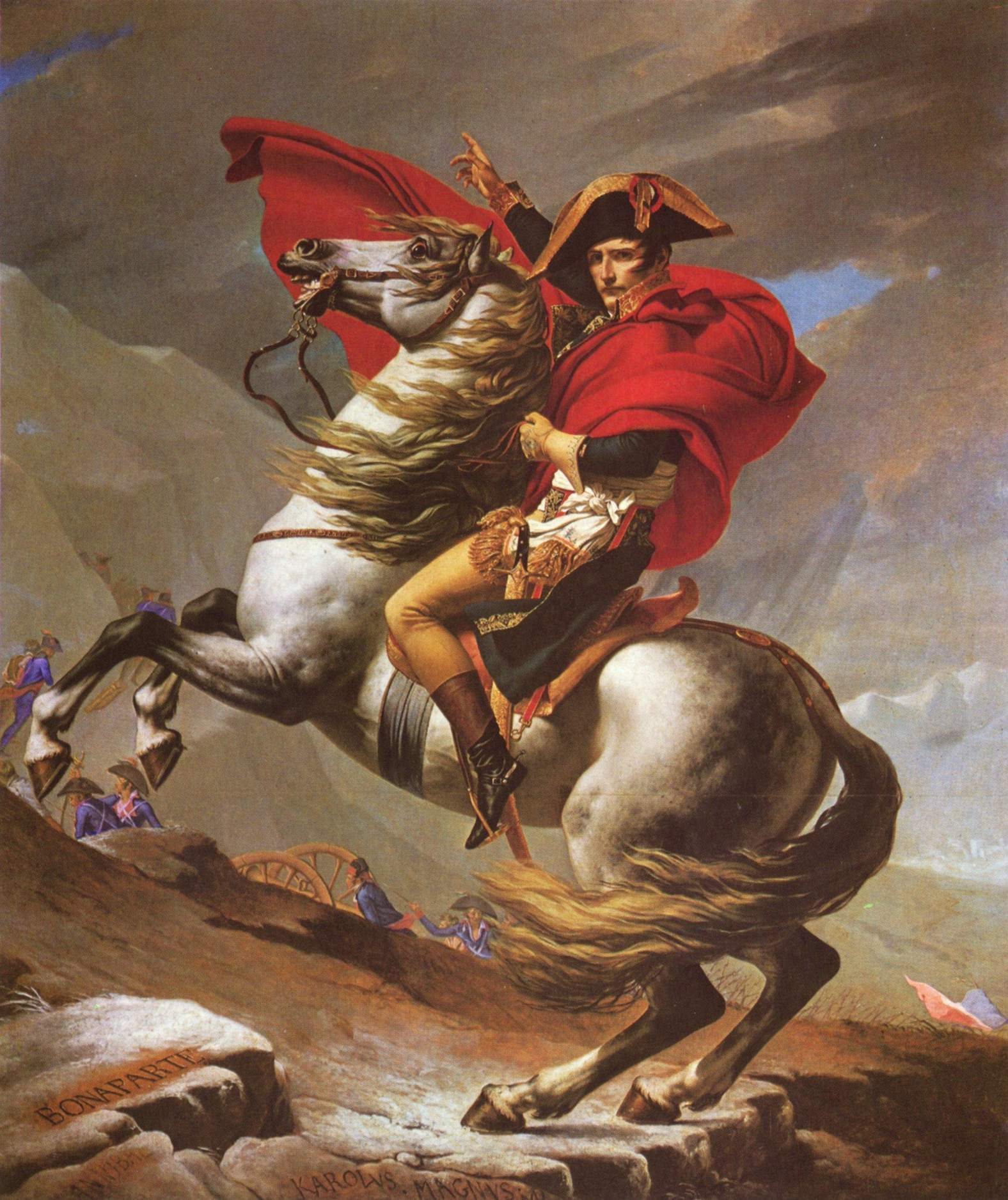 is almost identical to that of 1. Versailles version but signed